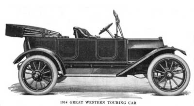 1914 Great Western Model 40 with touring coachwork by Charles Abresch Co. of Milwaukee, Wisc.